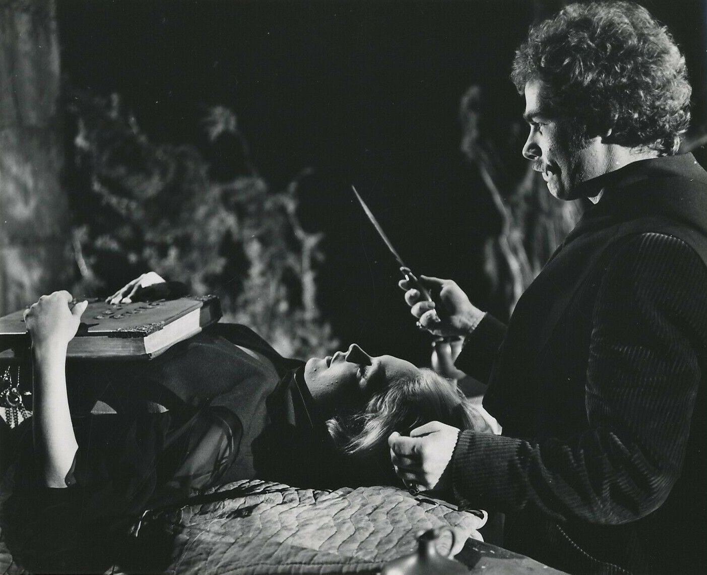 Dean Stockwell and Sandra Dee in press photo for The Dunwich Horror from American International Pictures